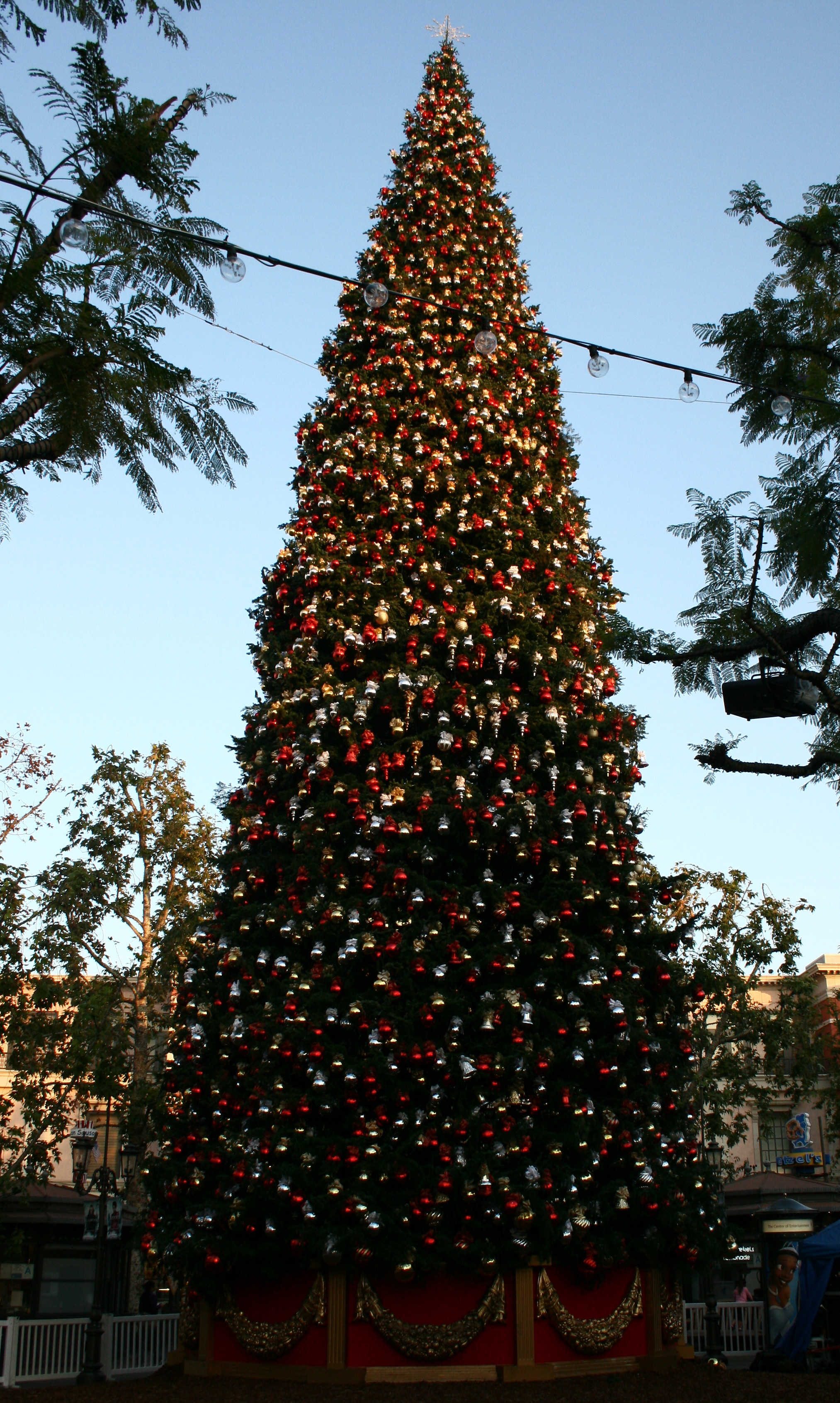 The Grove Christmas Tree at the The Grove at Farmers Market in Los Angeles, California.